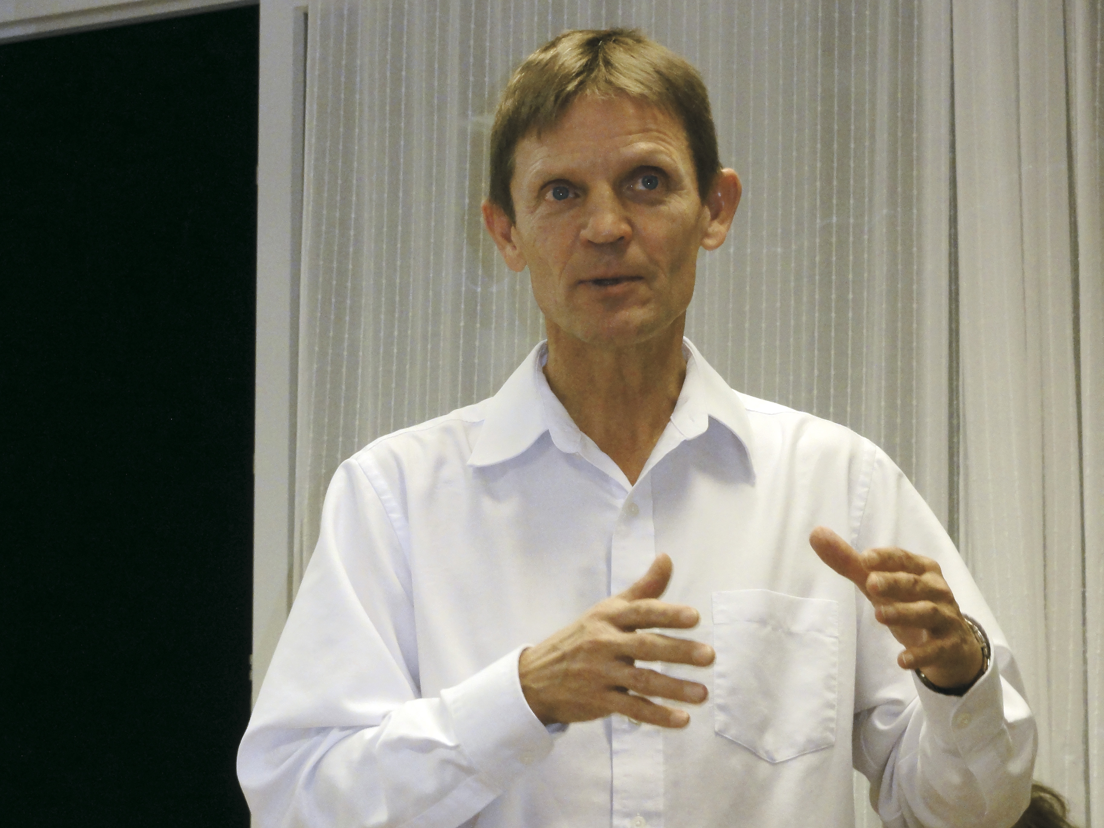 Attila Grandpierre